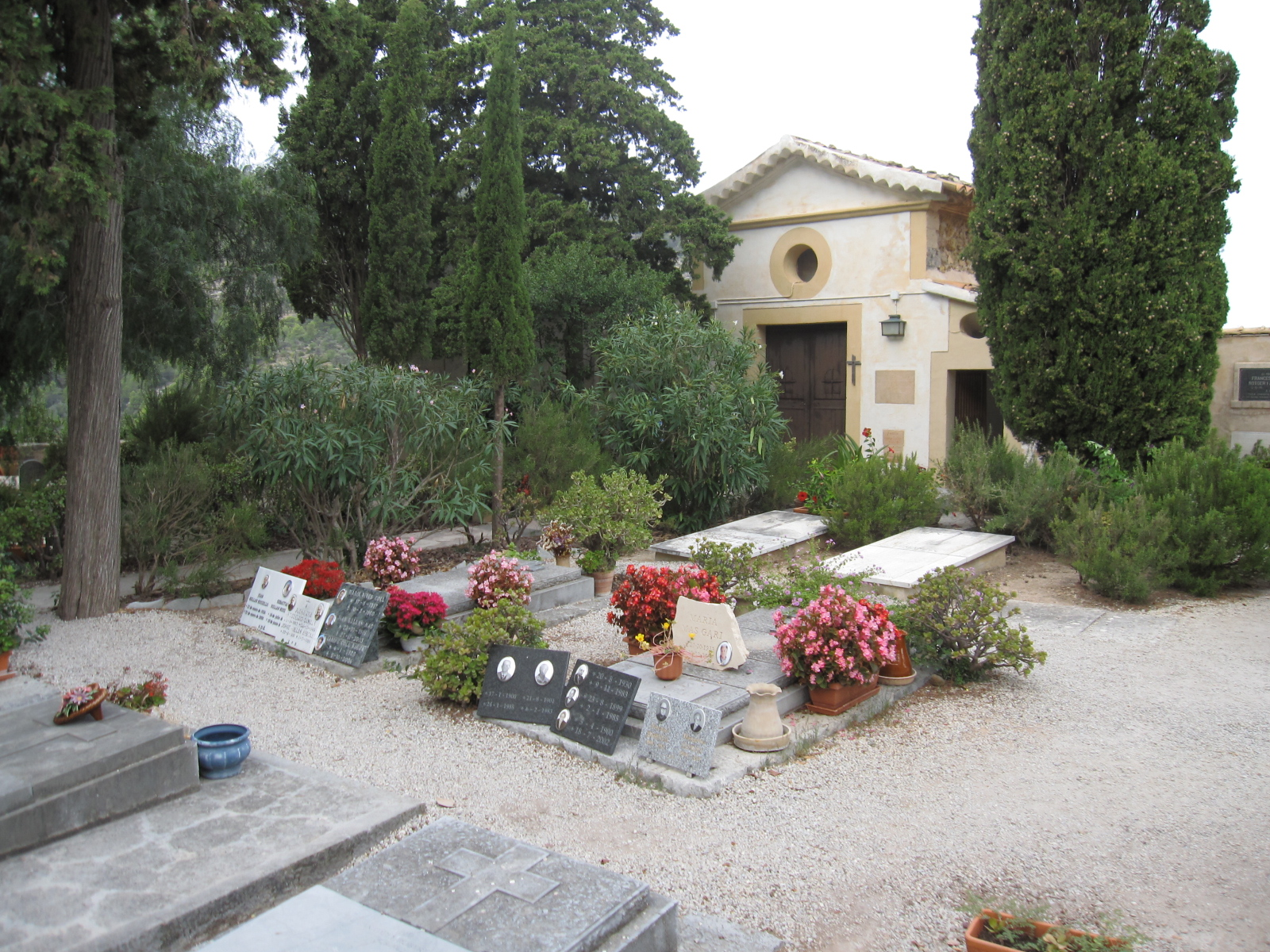 Cemetery of St. John the Baptist church in Deià